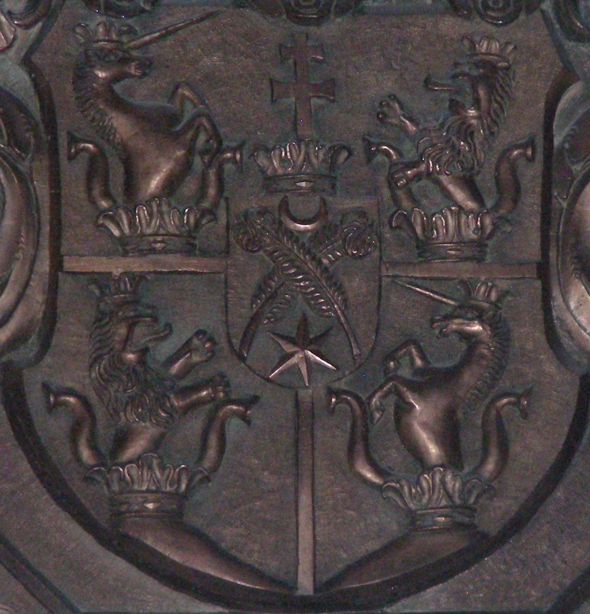 Coat of arms of Imre Czobor, Franciscan Church, Bratislava. Detail. For coat of arms of Czobor see also Siebmacher: Ungarn, p. 120, Tab. 94.